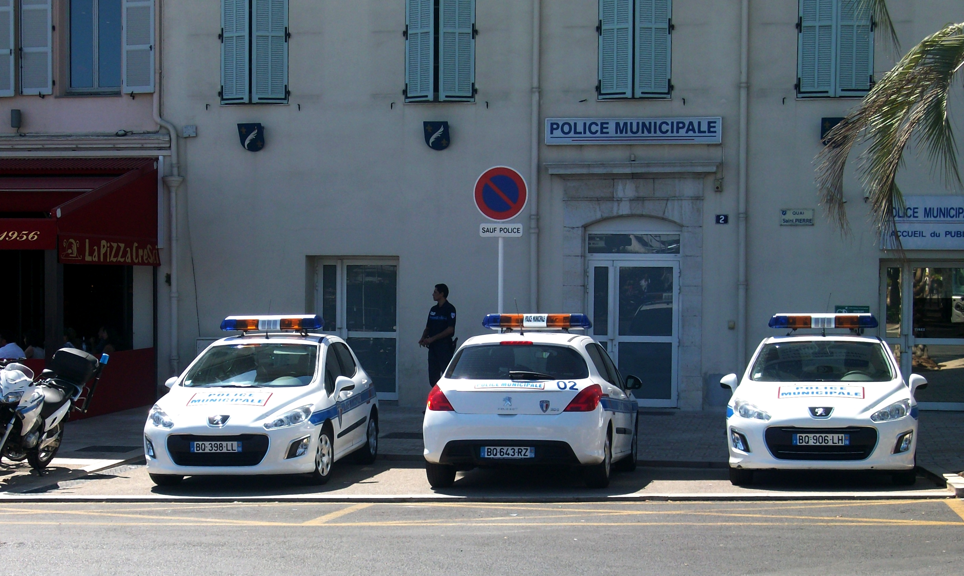 Municipal police, Cannes